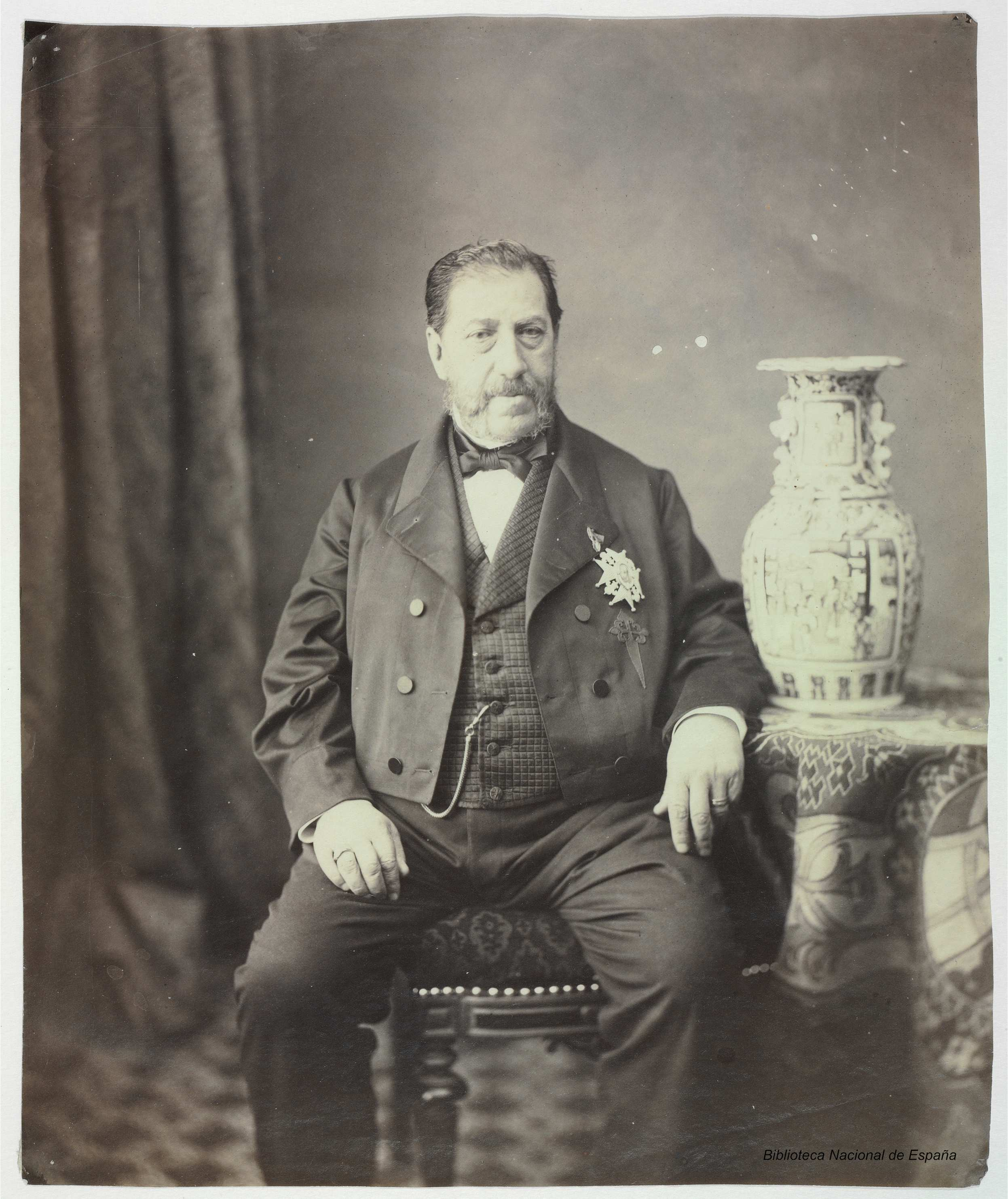 Infante Francisco de Paula of Spain (1794-1865)